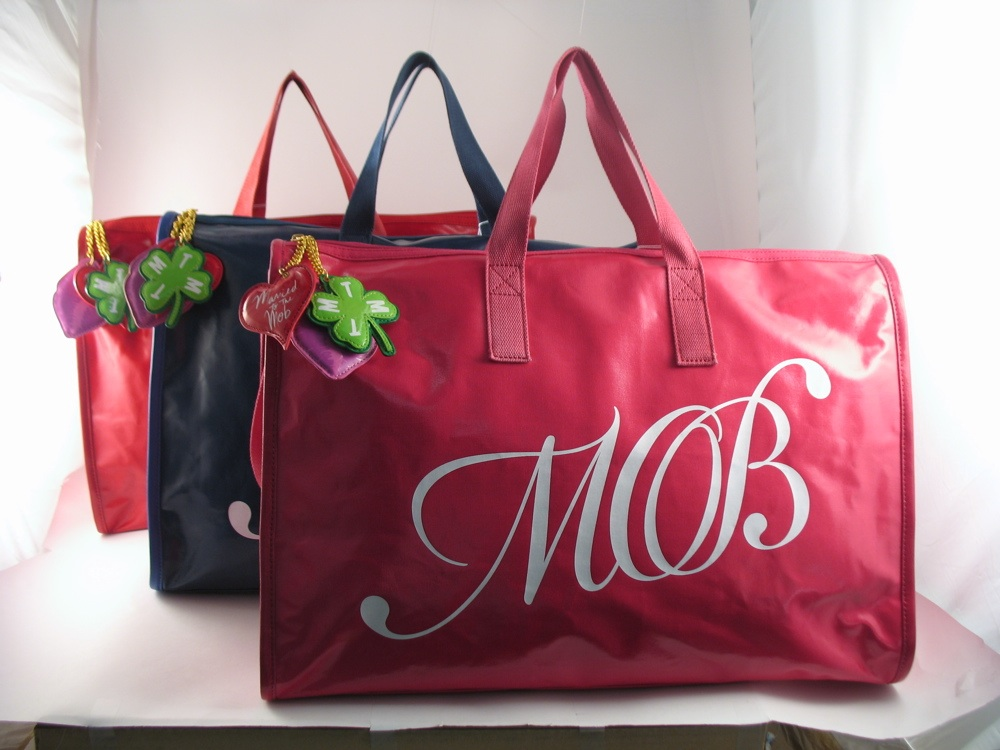 MOB bag